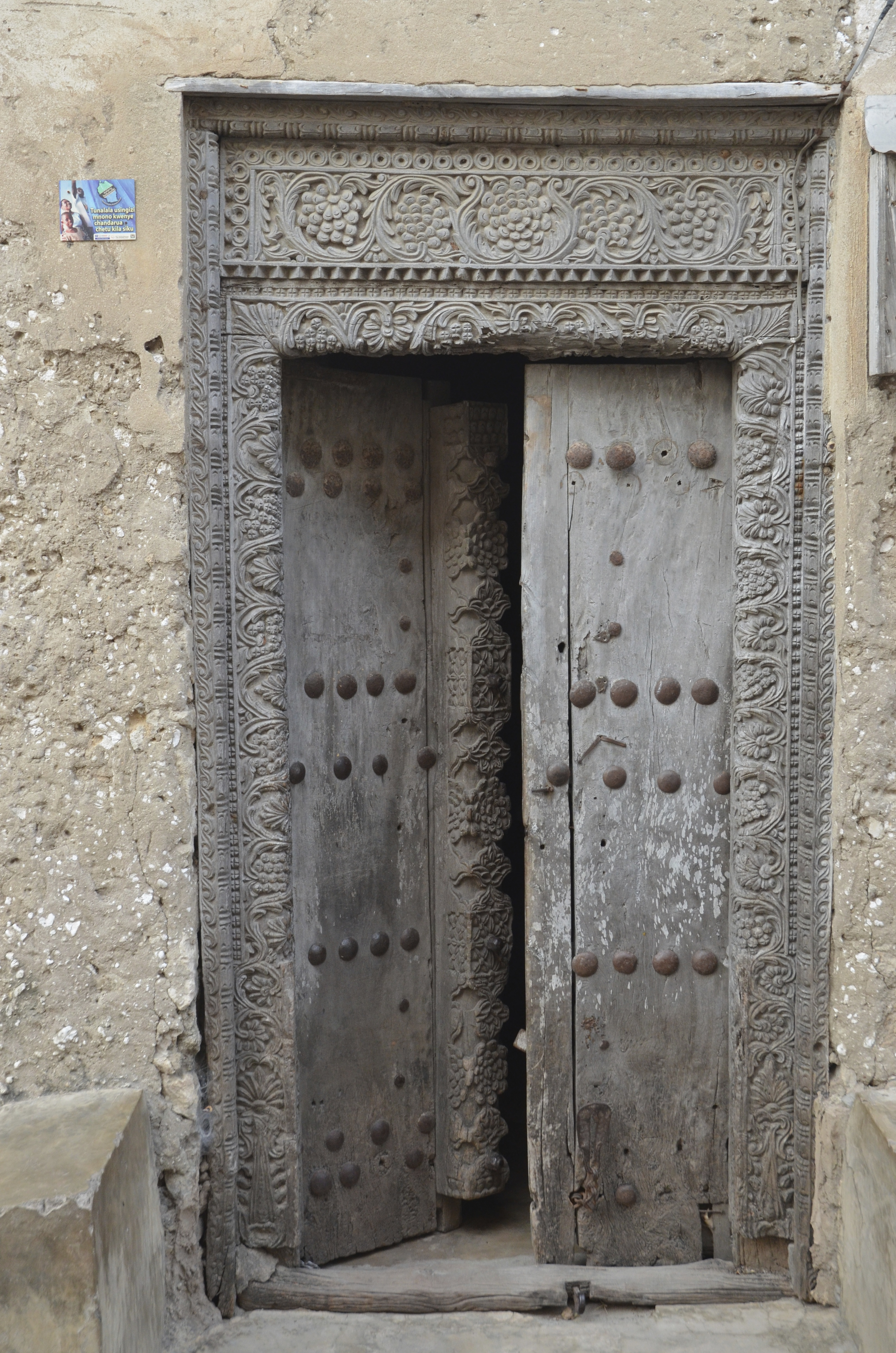 A so-called "Zanzibar"-Door in Bagamoyo, Tanzania.